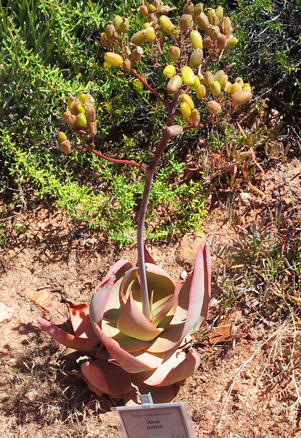 Aloe buhrii with seed pods - Karoo Desert National Botanical Garden - Worcester RSA